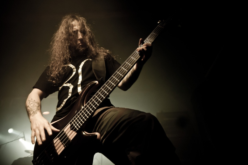 Filip "Heinrich" Hałucha of Decapitated Polish death metal band, Kraków, Loch Ness, 14.10.2010